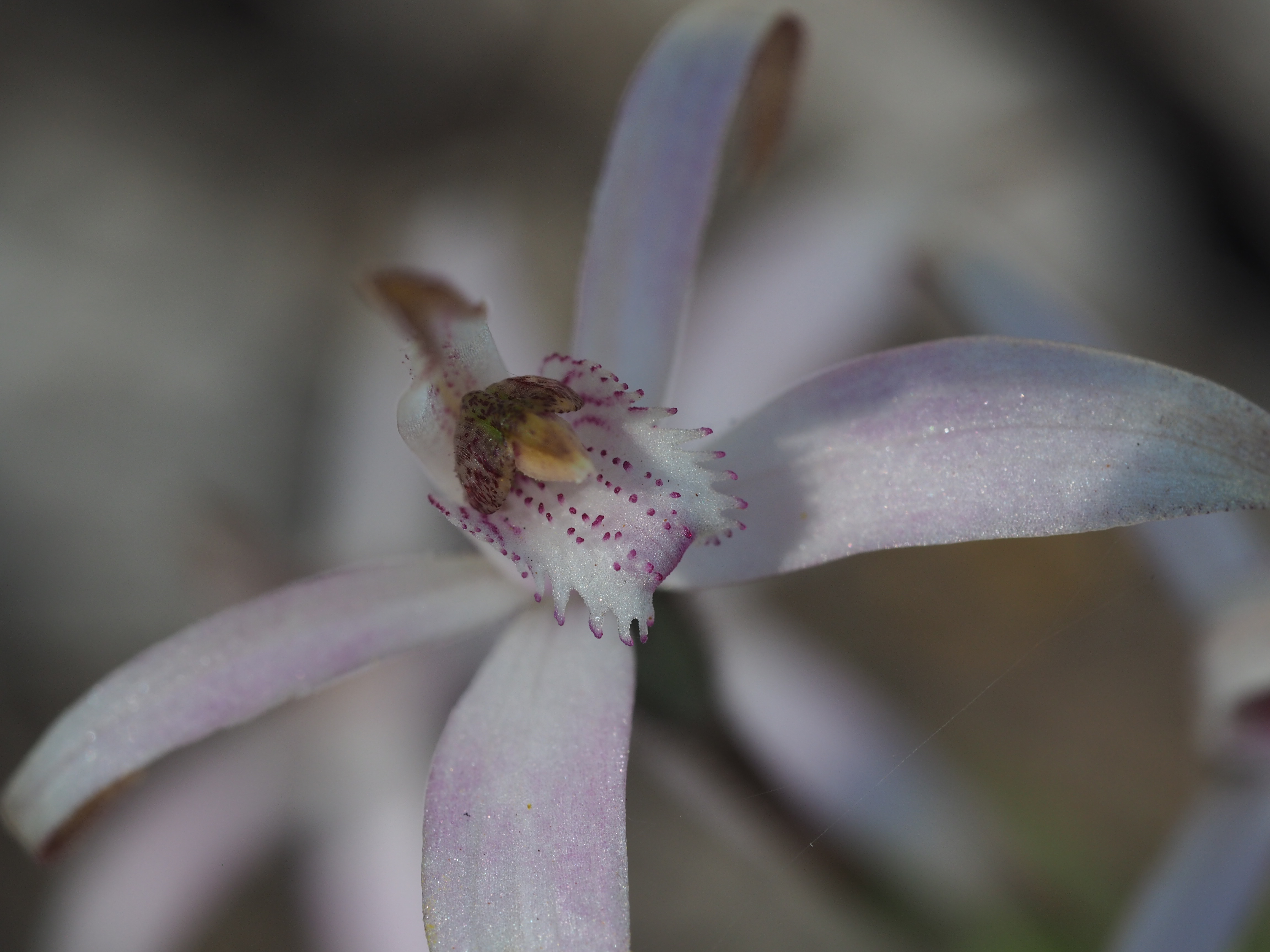 Caladenia hirta subsp. rosea growing in Kalgarin Hill Conservation Reserve near Hyden, Western Australia